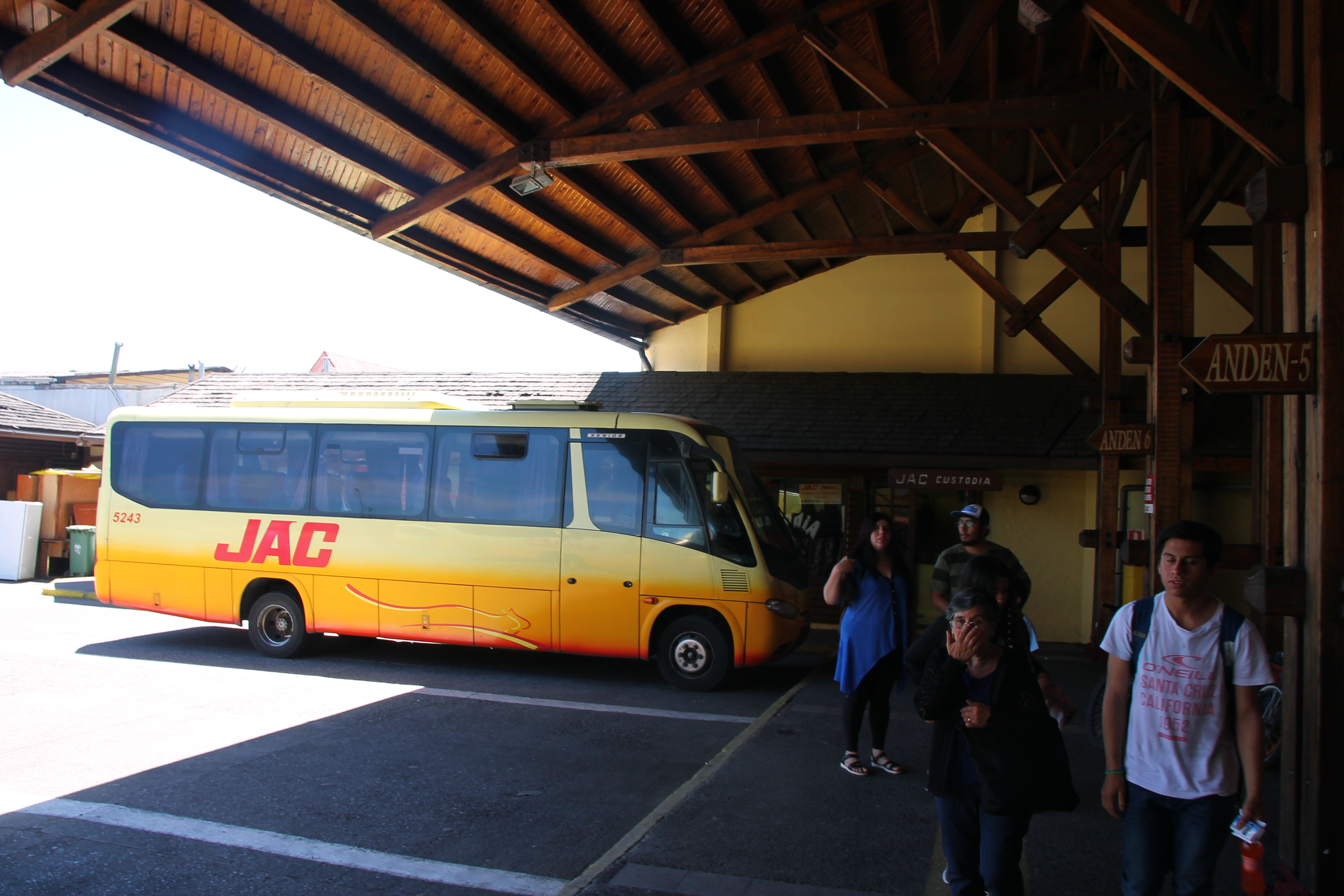 Bus of the company JAC in the Villarrica bus station, Chile